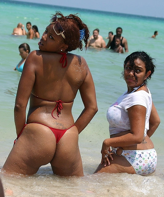 Miami Spring Festival 2005, Miami Beach, FL, USA - sunbathing, beach, afroamerican woman, black, Tanga, Bikini